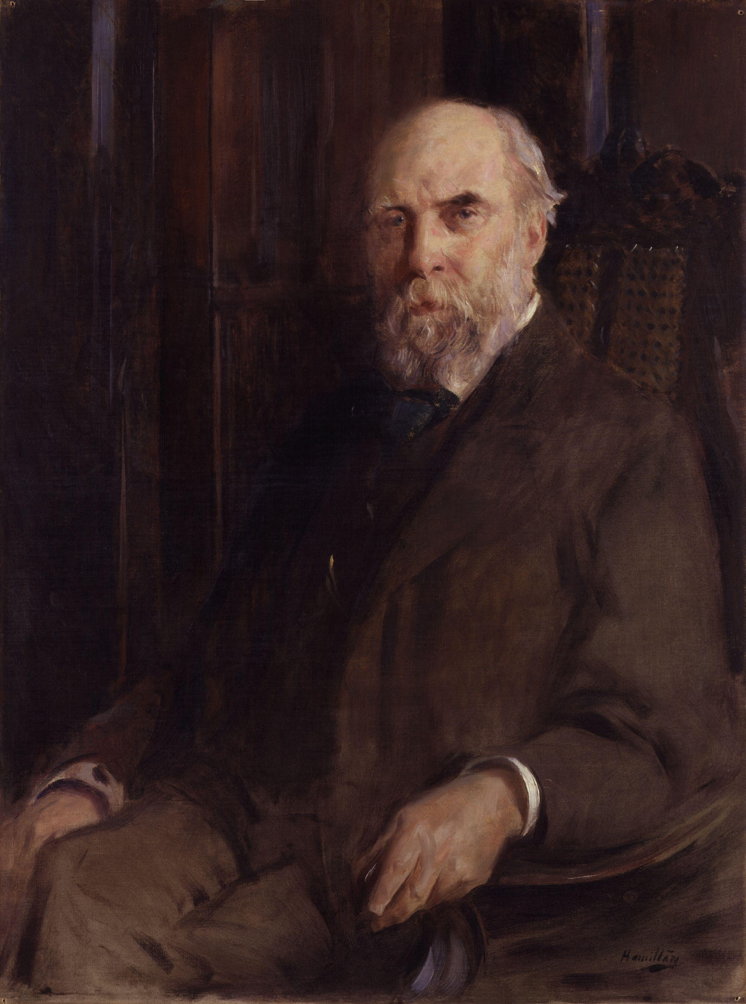 William Cosmo Monkhouse, by John McLure Hamilton (died 1936), given to the National Portrait Gallery, London in 1920. All images in this batch have been confirmed as author died before 1939 according to the official death date listed by the NPG.